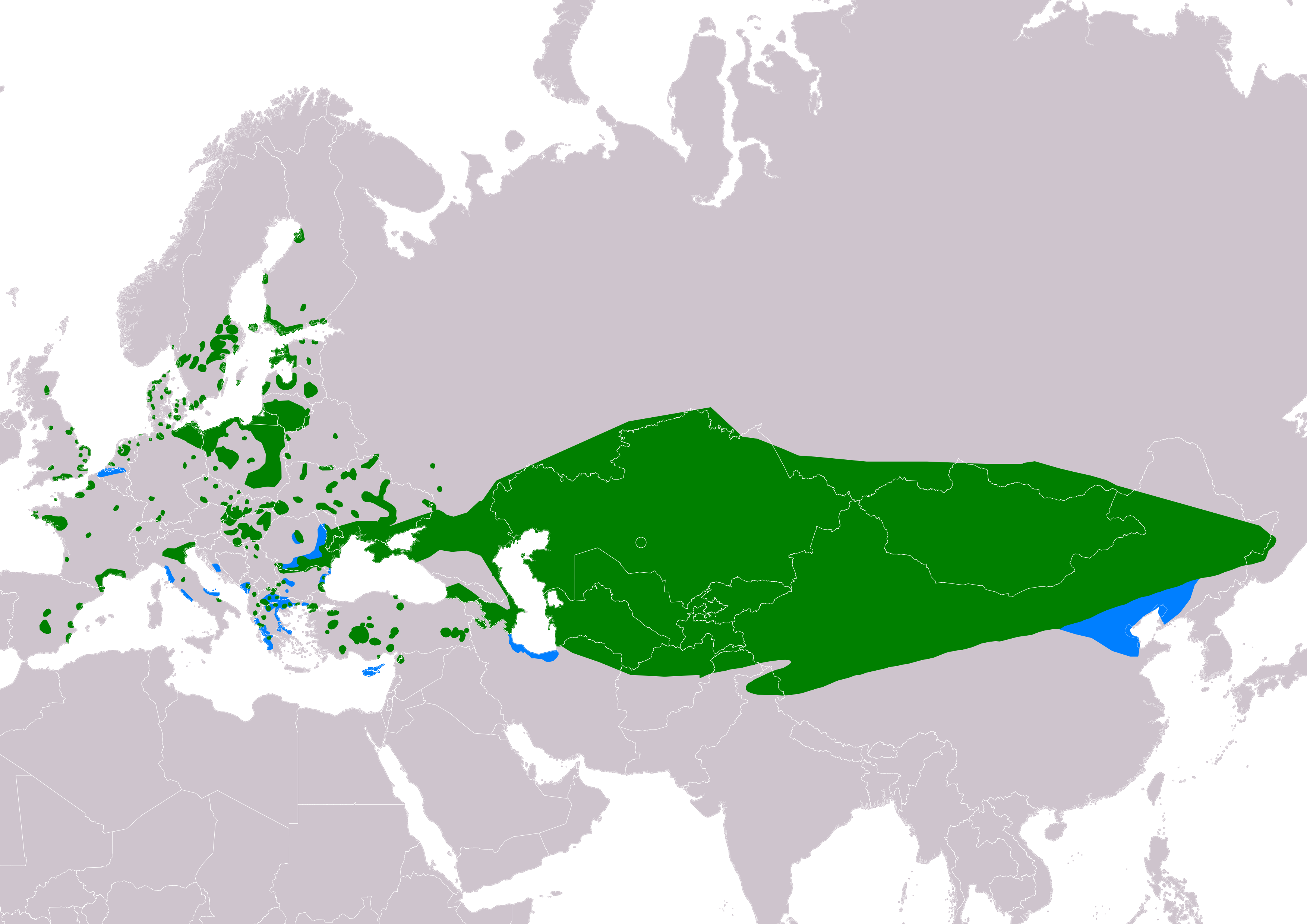 Distribution map of Bearded Reedling (Panurus biarmicus) according to IUCN version 2019.3; key: Legend: Extant, resident (#008000), Extant, non-breeding (#007FFF)